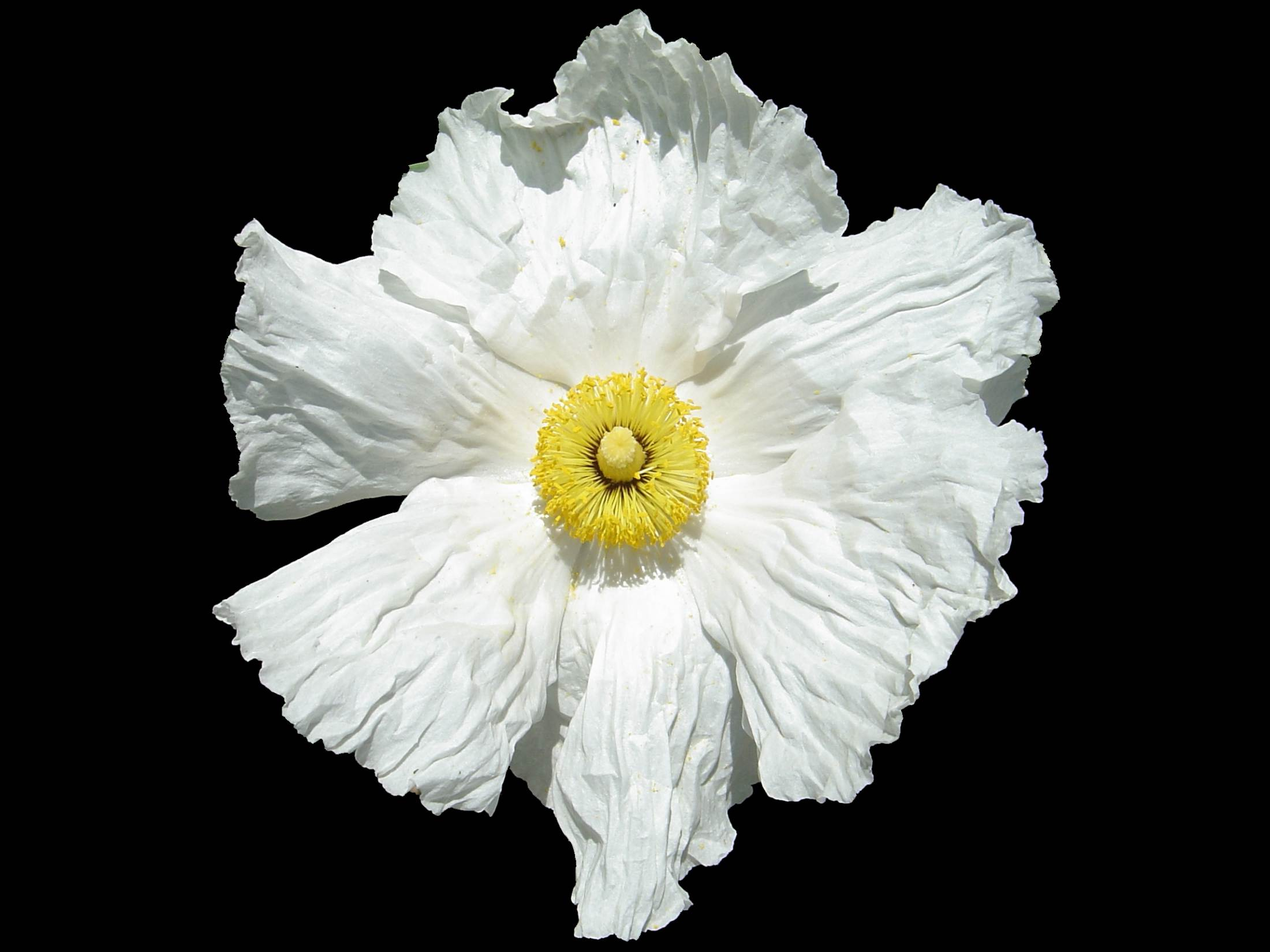 Image of an "Fried-Egg-Plant" (Romneya coulteri)